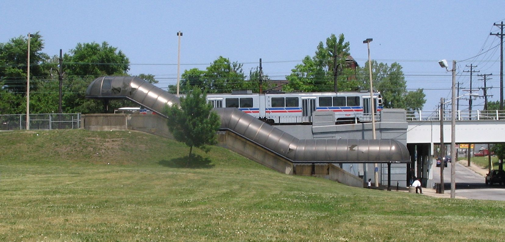 East 79th Station on the Blue and Green Lines of Cleveland RTA Rapid Transit